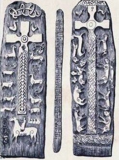 image